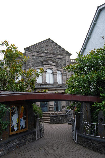 The Tabernacle Arts Centre, Machynlleth